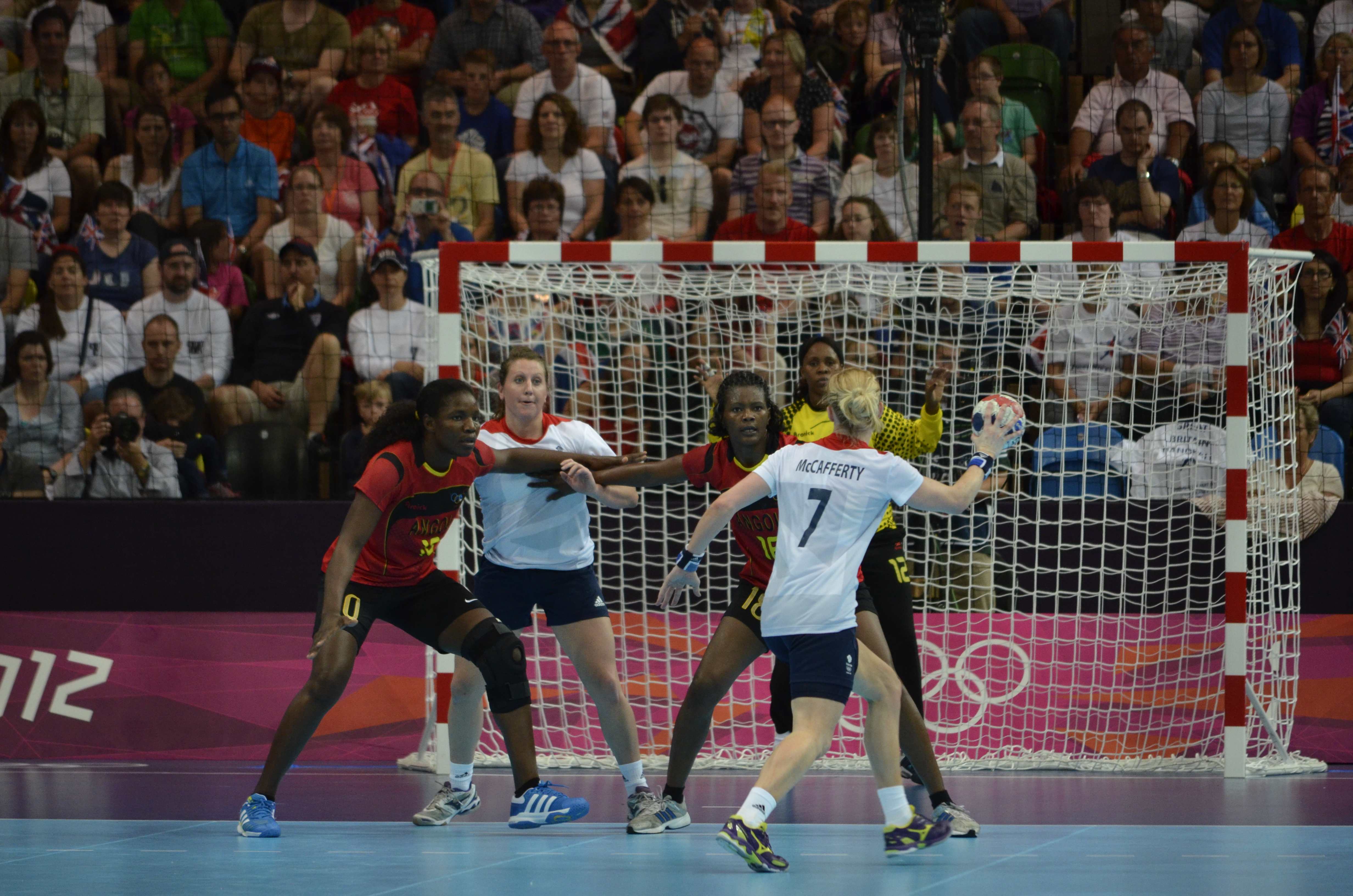 Handball at the 2012 Summer Olympics